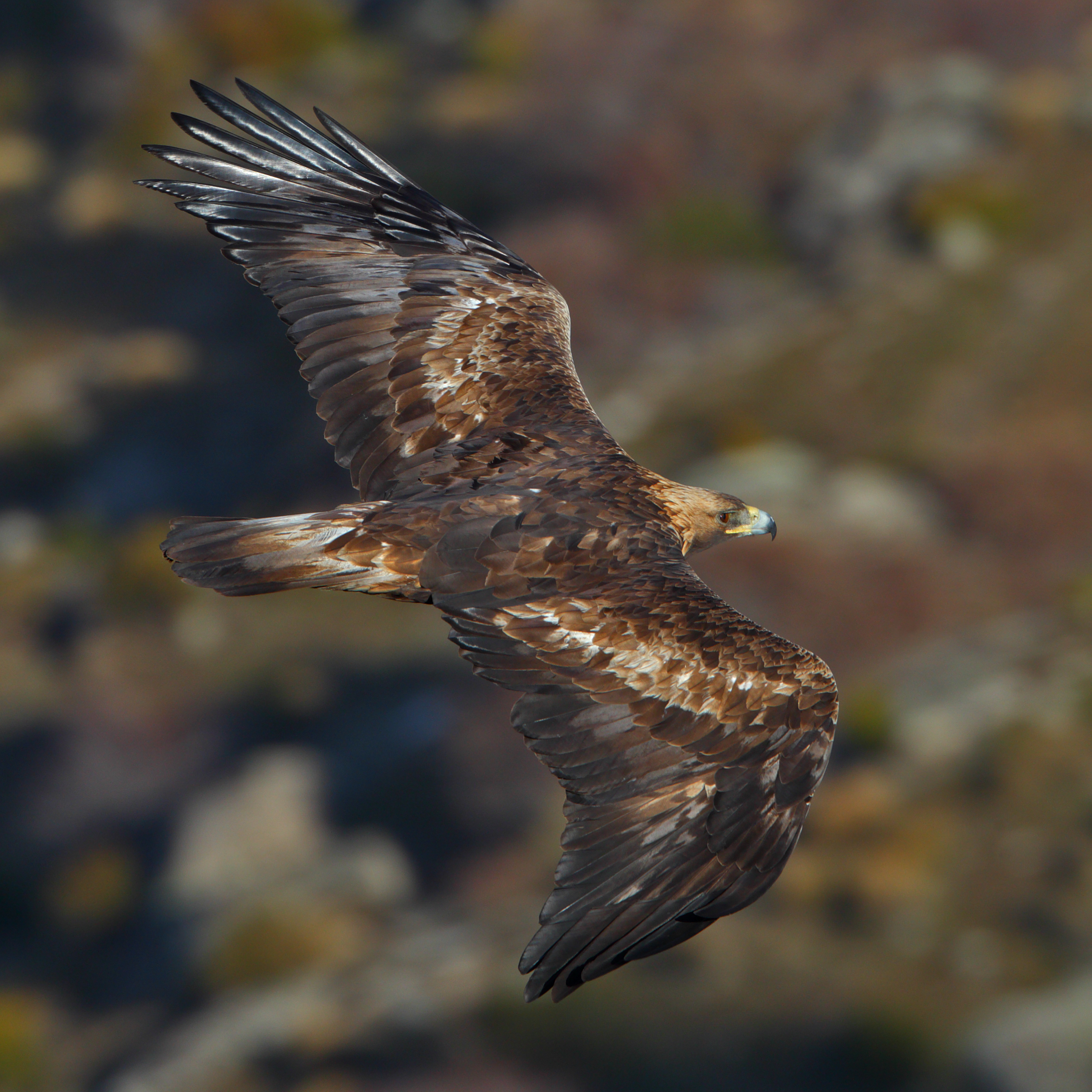 Flying golden eagle, La Cañada, Avila, Spain